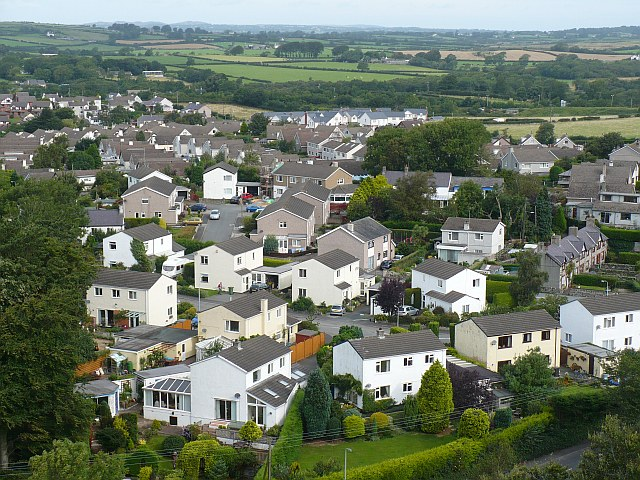 Llanfair Pwllgwyngyll roofscape [1] The view NNW from the Marquess of Anglesey's Column. 786189 Just beyond the houses, the route of the A55 can be made out by following the lampposts.